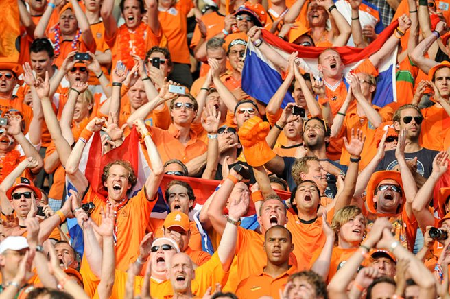 UEFA Euro 2012 match between Netherlands and Denmark that took place in Kharkiv. Final result was 0:1 (Krohn-Delhi)